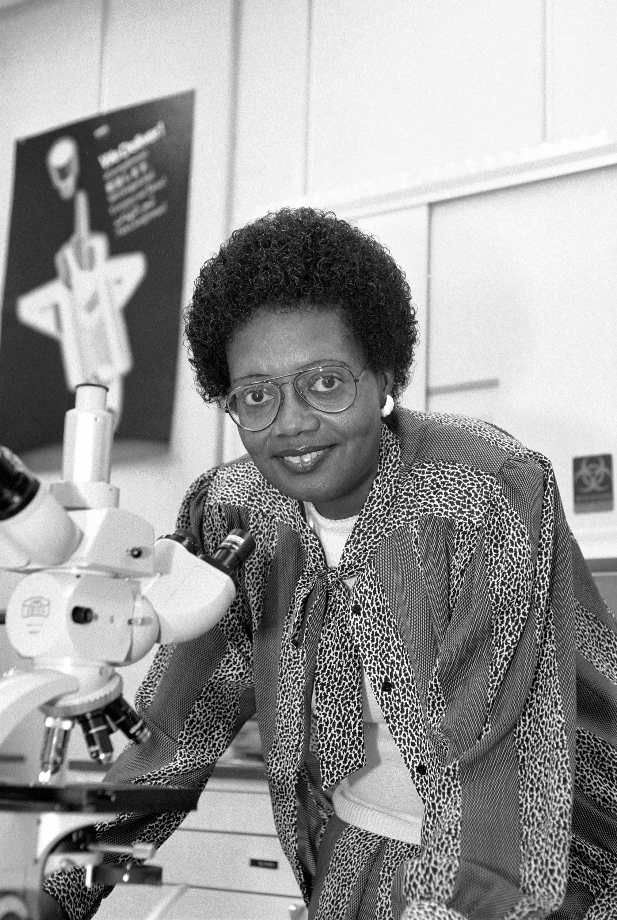 Photograph of Irene Duhart Long at work at the U.S. National Aeronautics and Space Administration